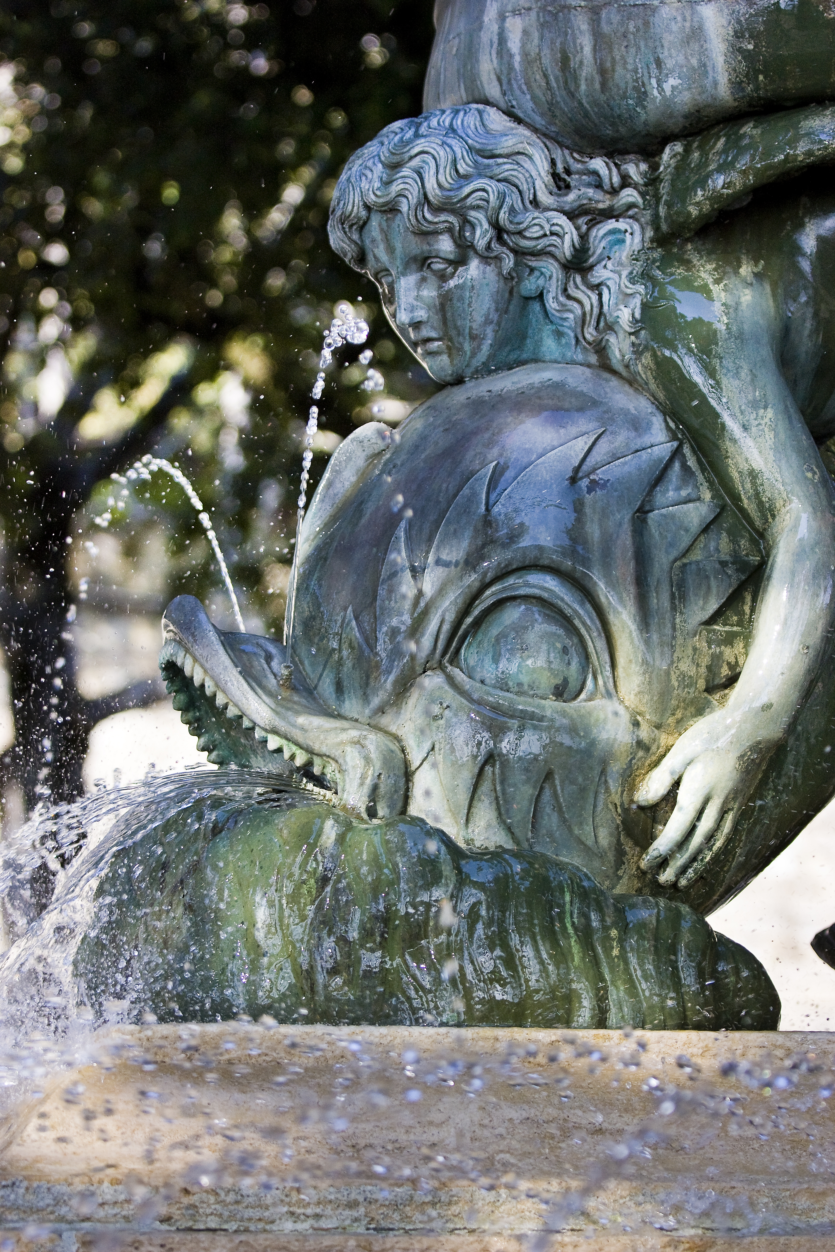 Fountain designed by Ignazio Lucibello (Cortona - Italy)